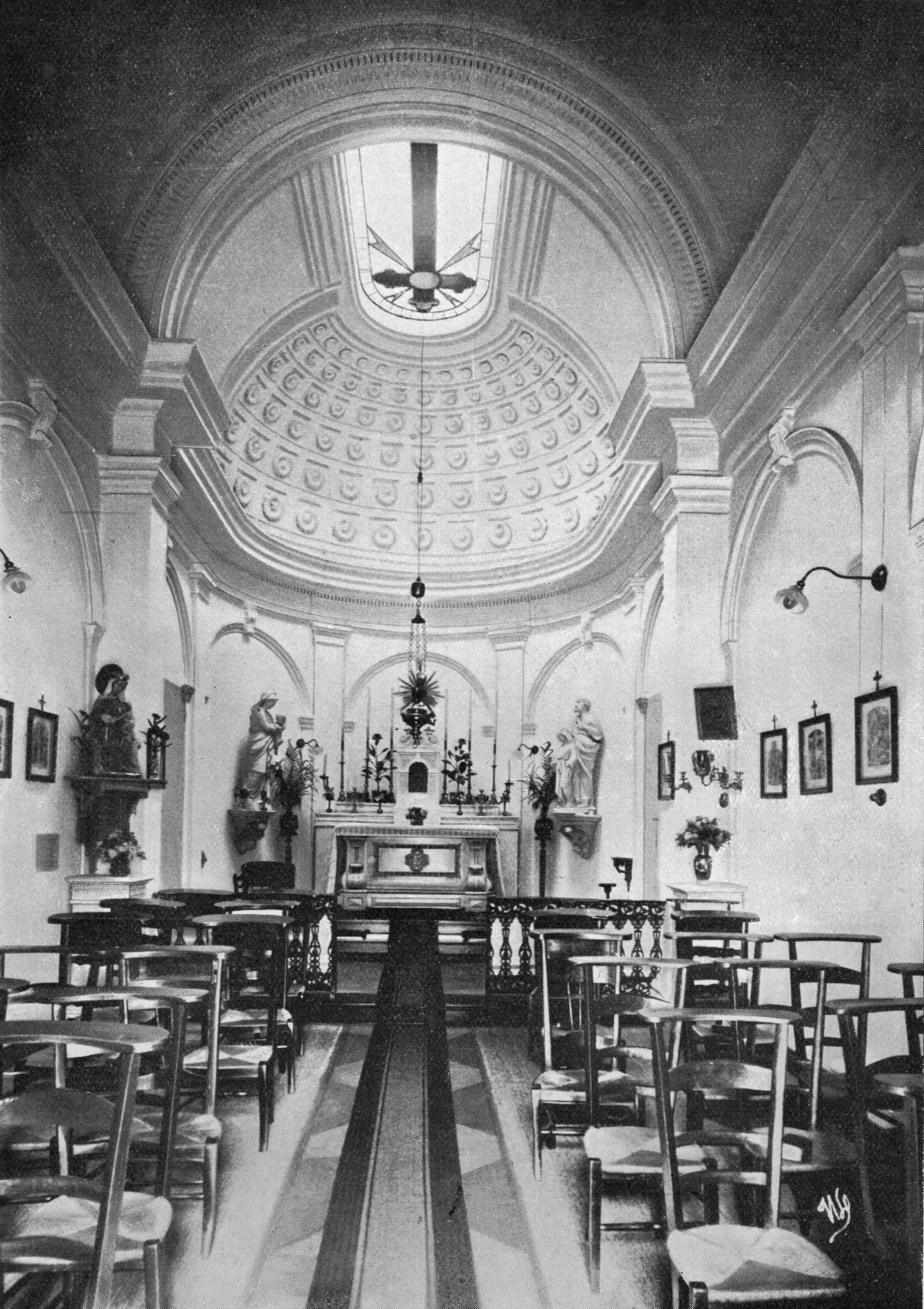 Bonne-Espérance Abbey, Vellereille-les-Brayeux (Belgium), the chapel of the infirmary (1791).